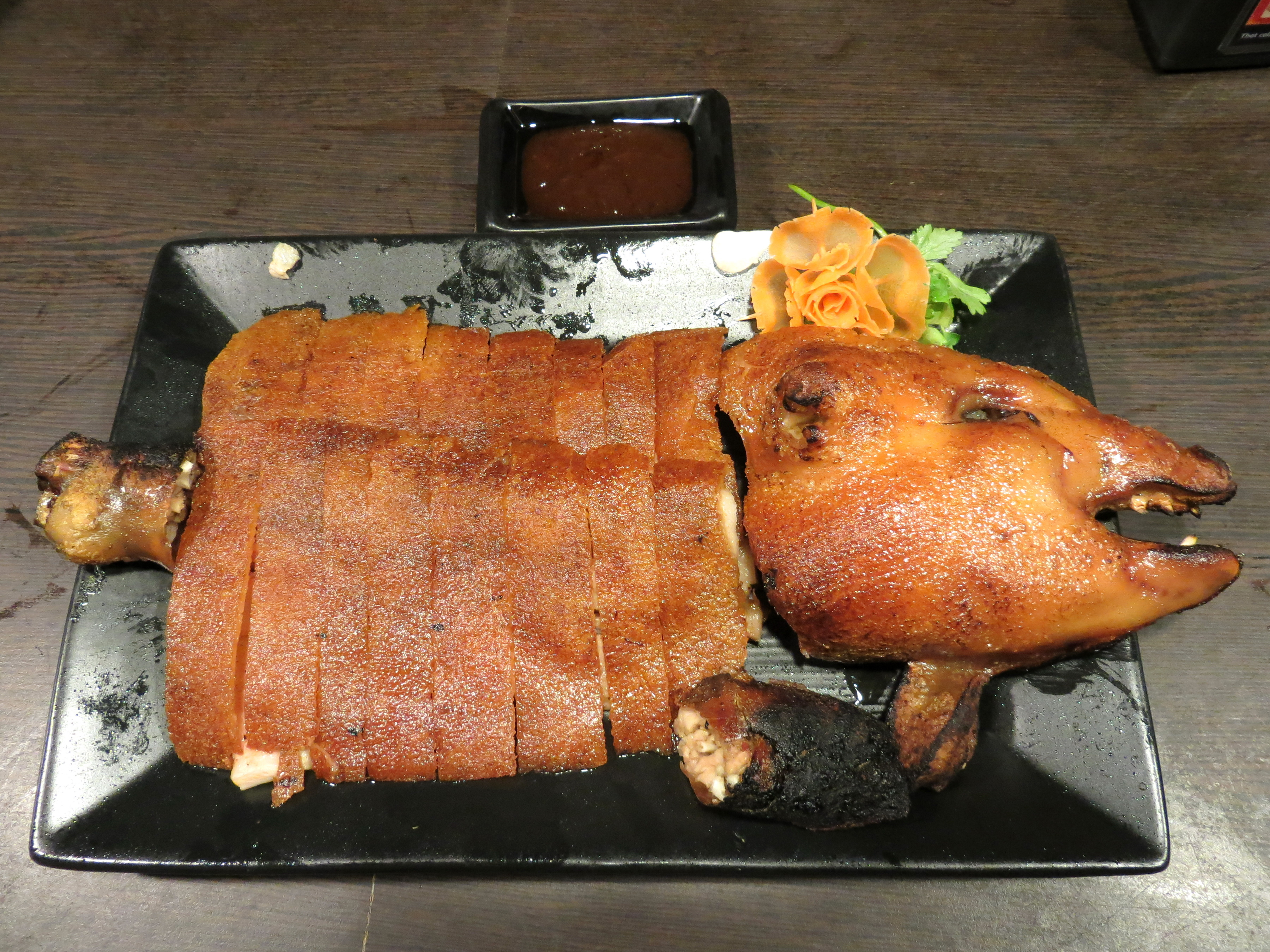 A roast suckling pig served in a restaurant in Hong Kong.